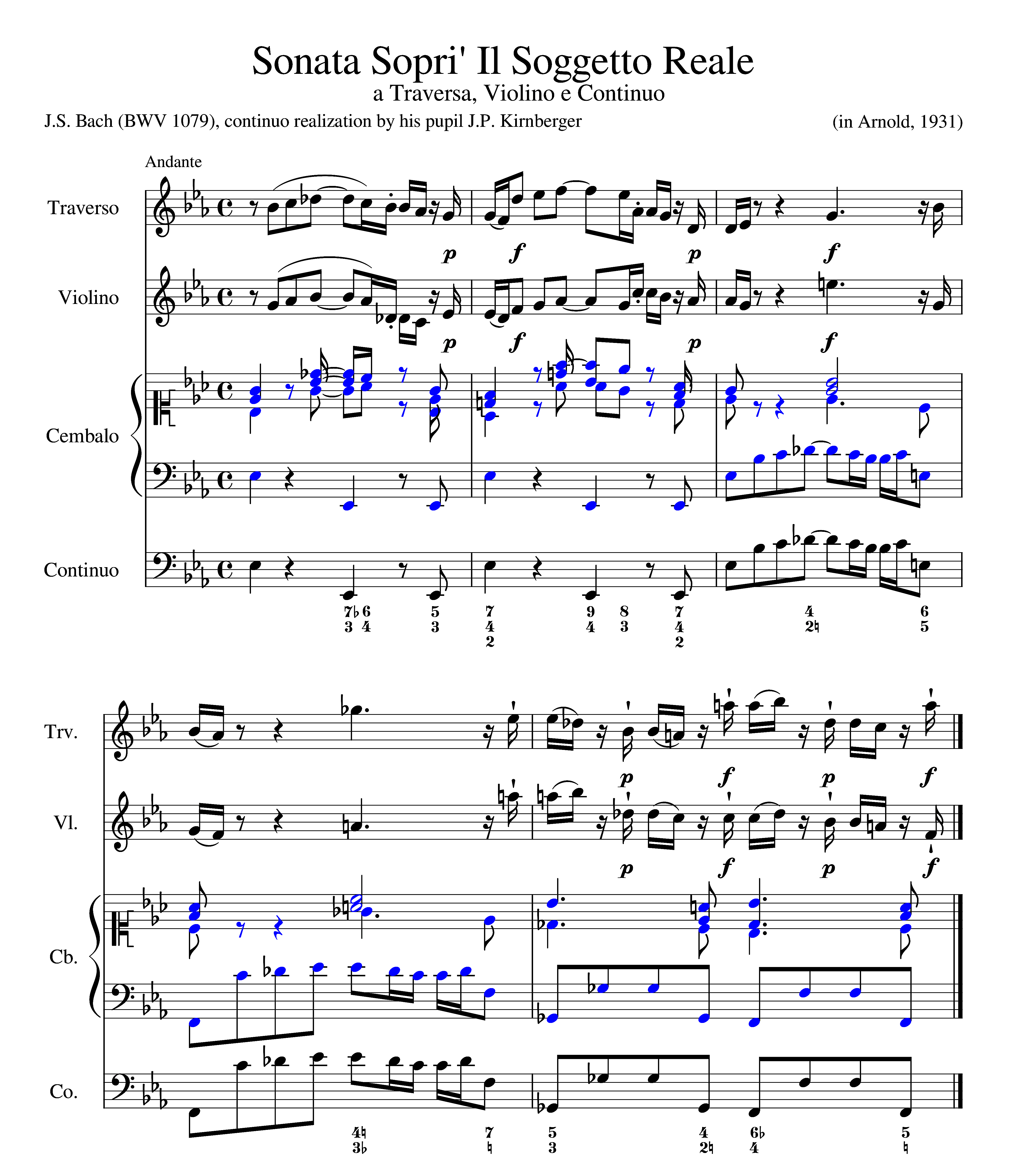 The Adagio for traverso, violin and continuo from J.S. Bach's Musical Offering (BWV 1079), with a keyboard realization by his pupil Johann Kirnberger. A very rare survival of a figured bass realization for an entire movement by a musical master.